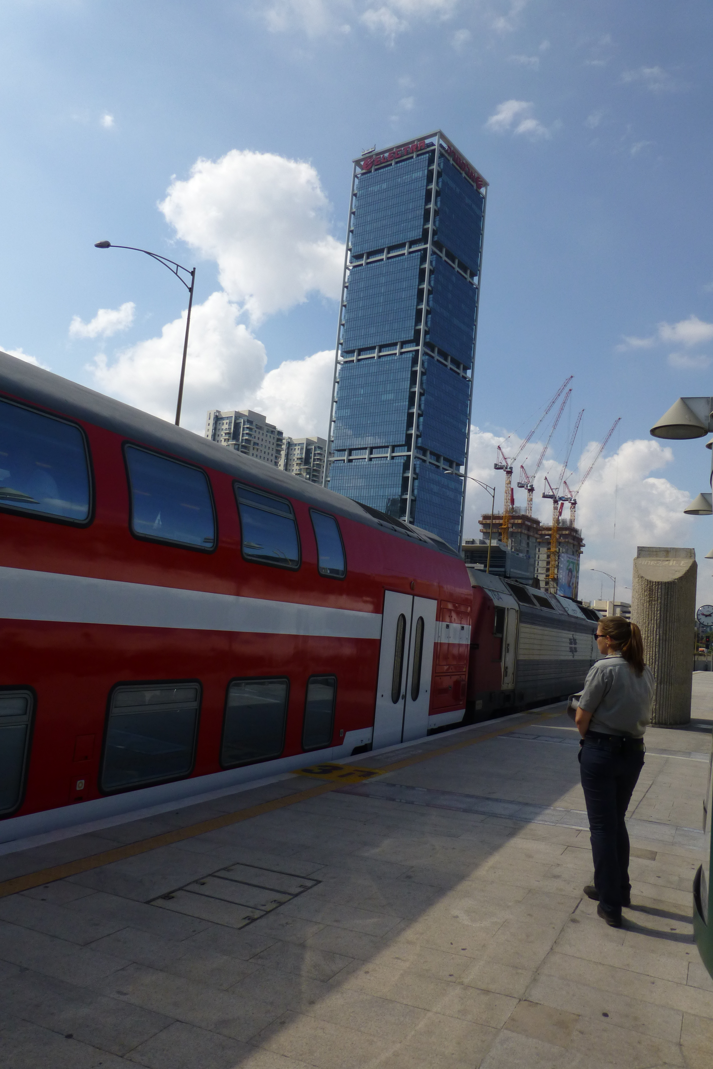 Electra Tower